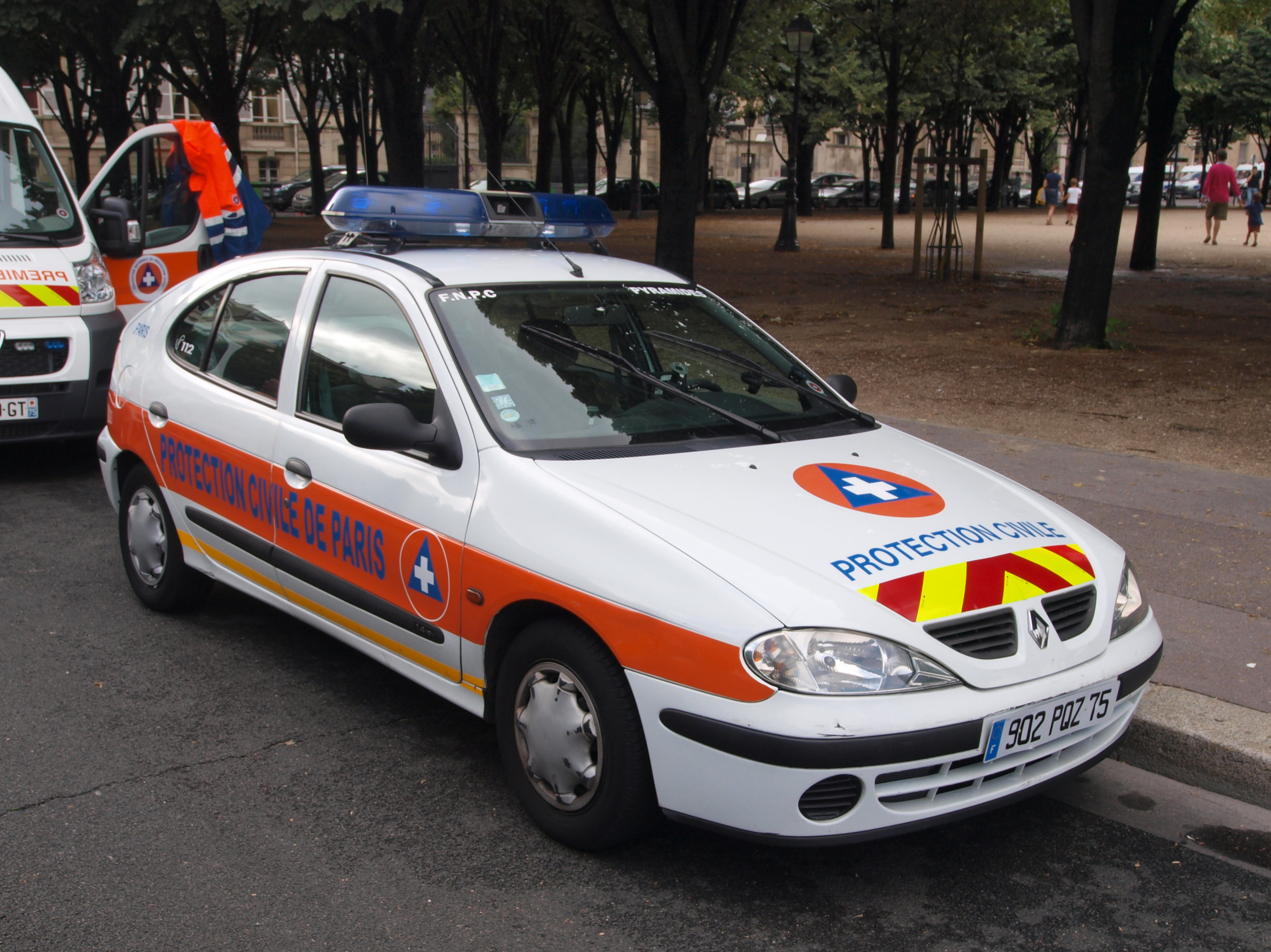 Photographed in France.